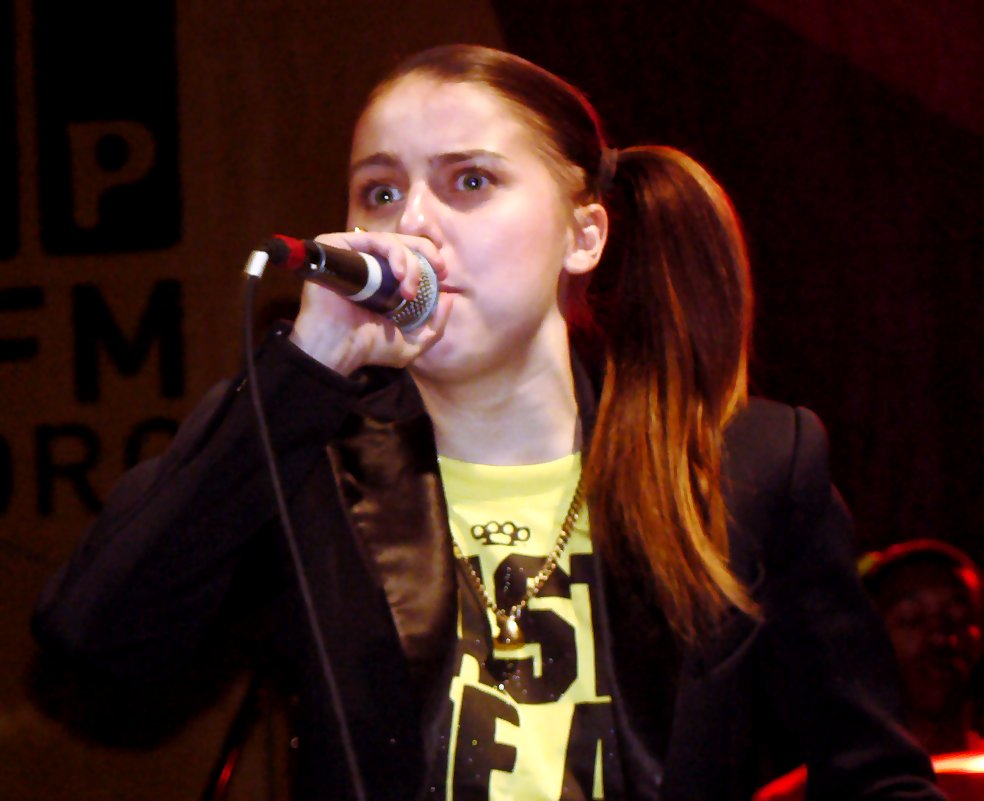 Lady Sovereign performing at the Bumbershoot Music & Arts Festival in Seattle, Washington, United States